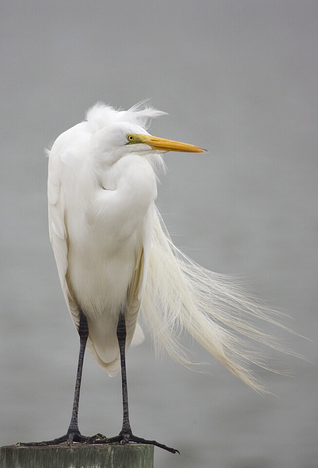 Great Egret (Ardea alba), Rockport Beach Park, Rockport, Texas